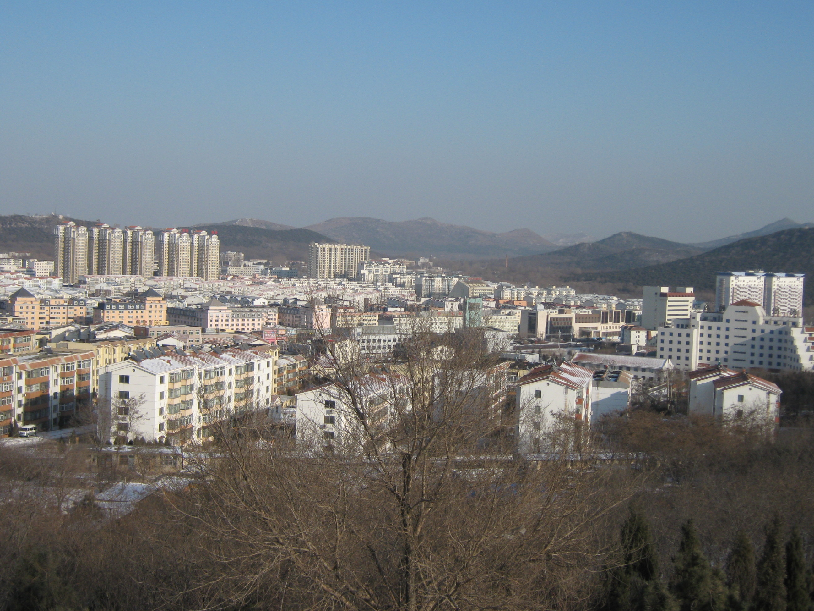 New district of Huludao city, viewed from Longbeishan Park.